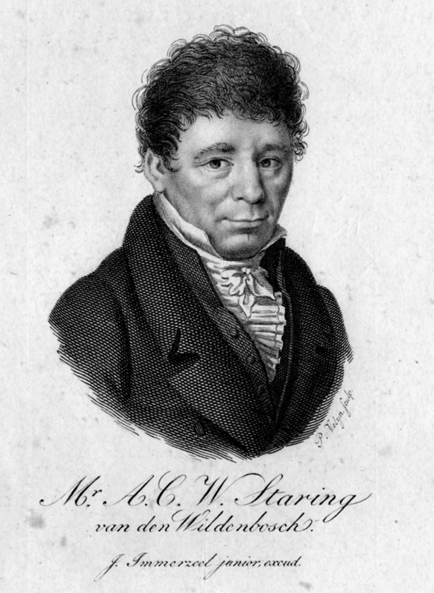 Print of Dutch writer Anthony Christiaan Winand Staring (d. 1840).